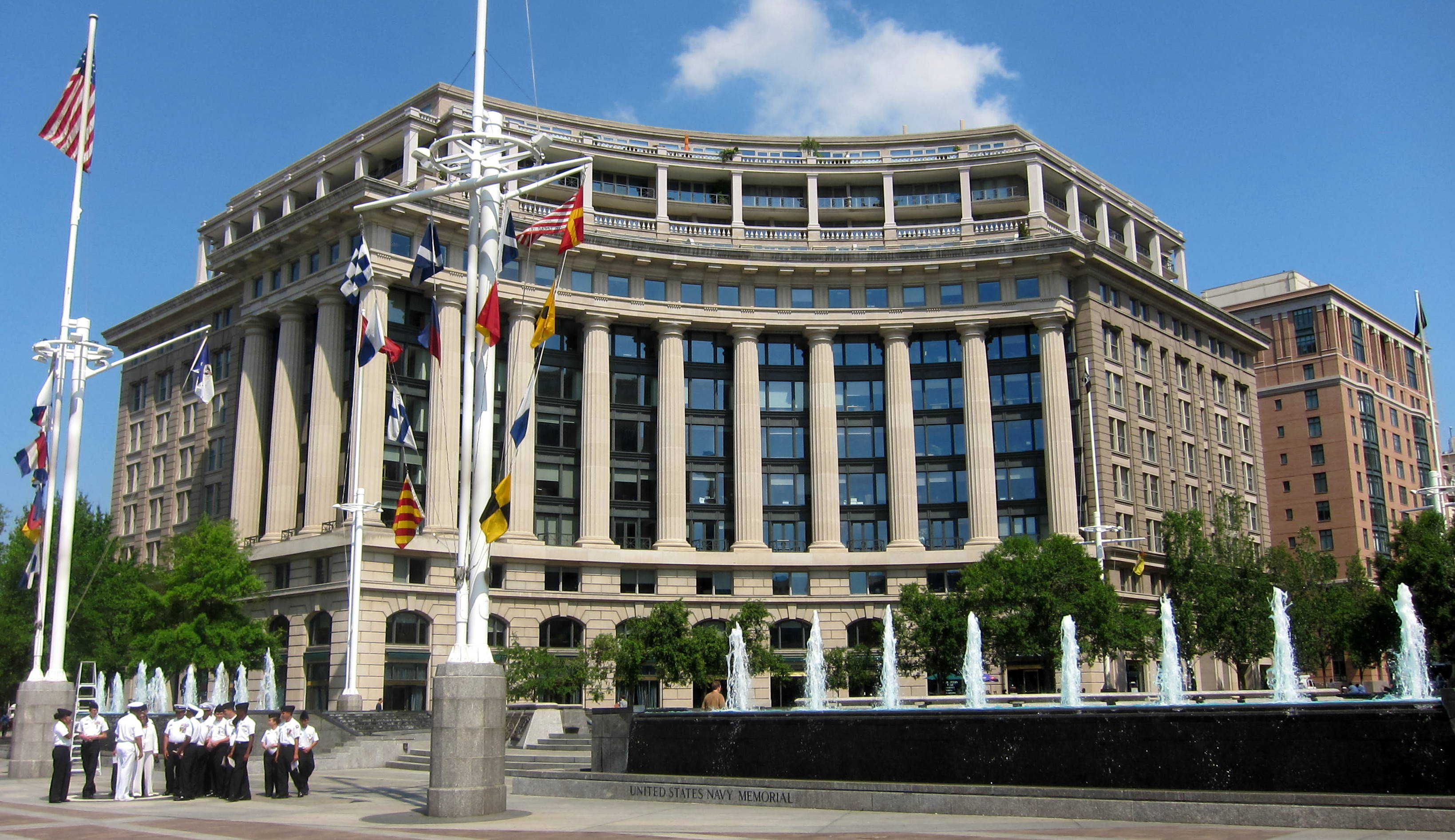 The United States Navy Memorial, located on the 700–800 blocks of Pennsylvania Avenue, N.W., in the Penn Quarter neighborhood of Washington, D.C.